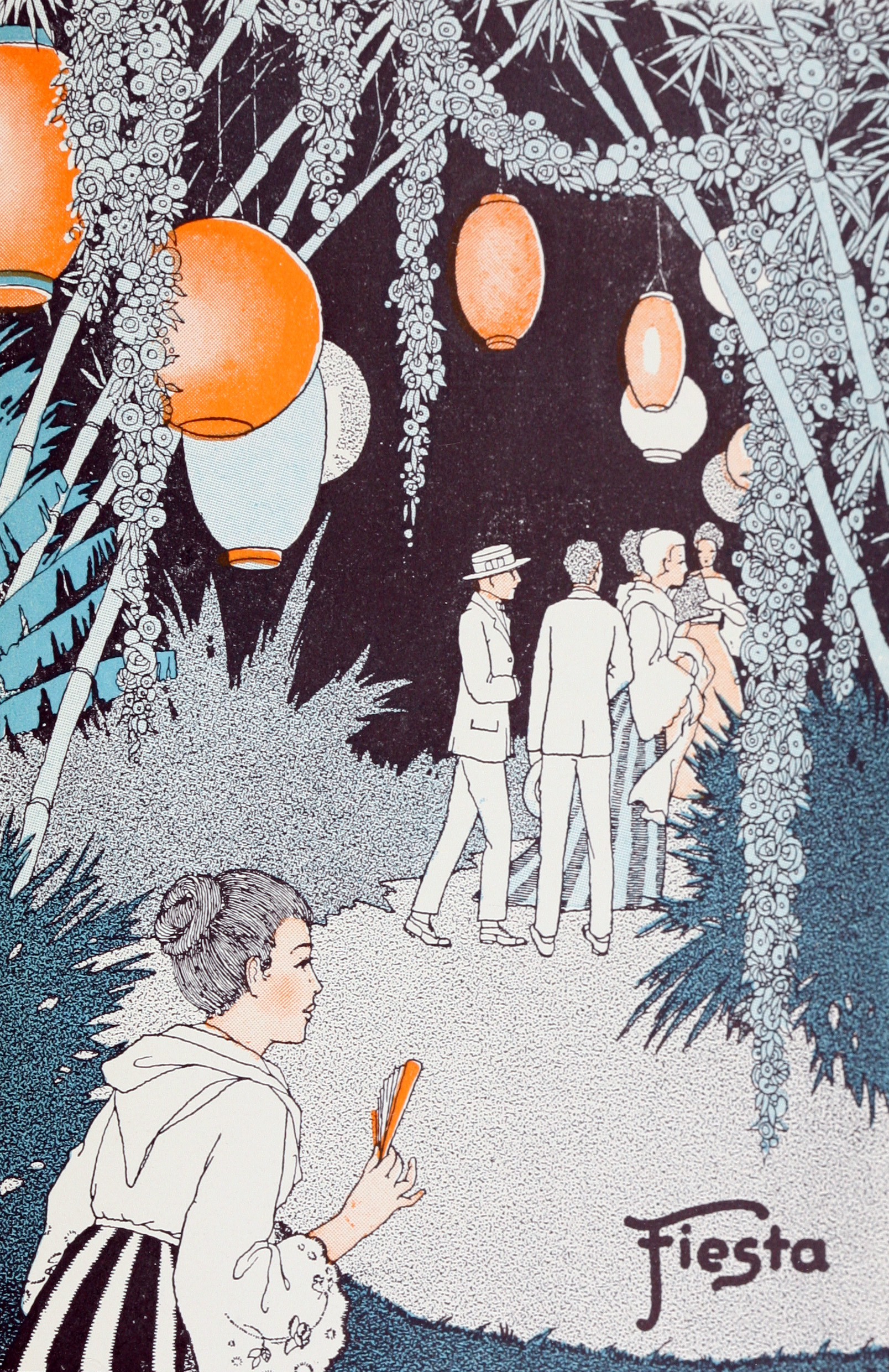 "Fiesta", from Fil and Filippa: Story of Child Life in the Philippines by John Stuart Thomson.